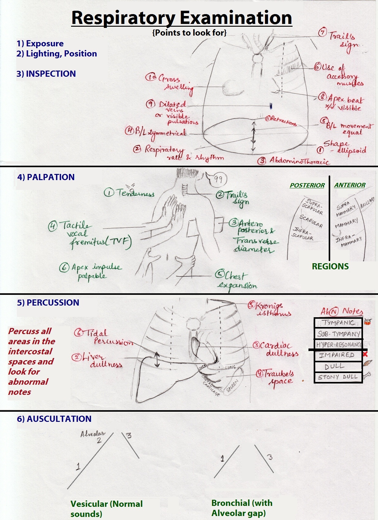 Illustration of the key points for respiratory examination.